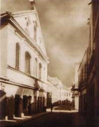 The Great Synagogue in Vilna, c.1930. Eastern flank.